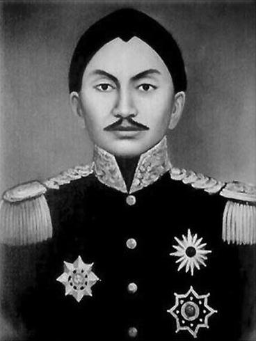 Pakubuwono VI (Surakarta, Central Java, 26 April 1807 – Ambon, Moluccas, 2 June 1849) (also transliterated Pakubuwana VI) was the sixth Susuhunan (ruler) of Surakarta from 1823 to 1830 when he was deposed by the Dutch and exiled.